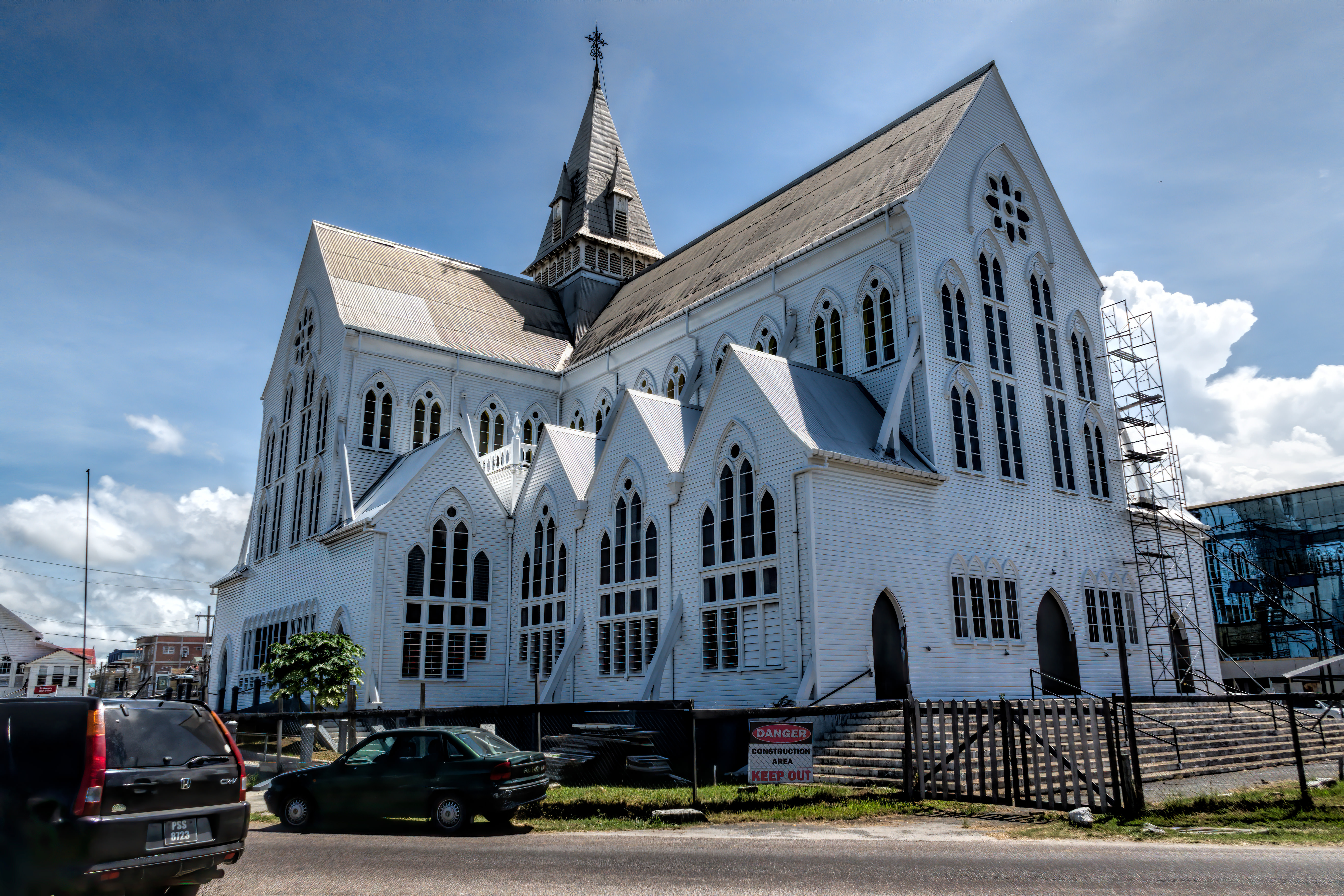 St. George's Cathedral, Georgetown in 2019